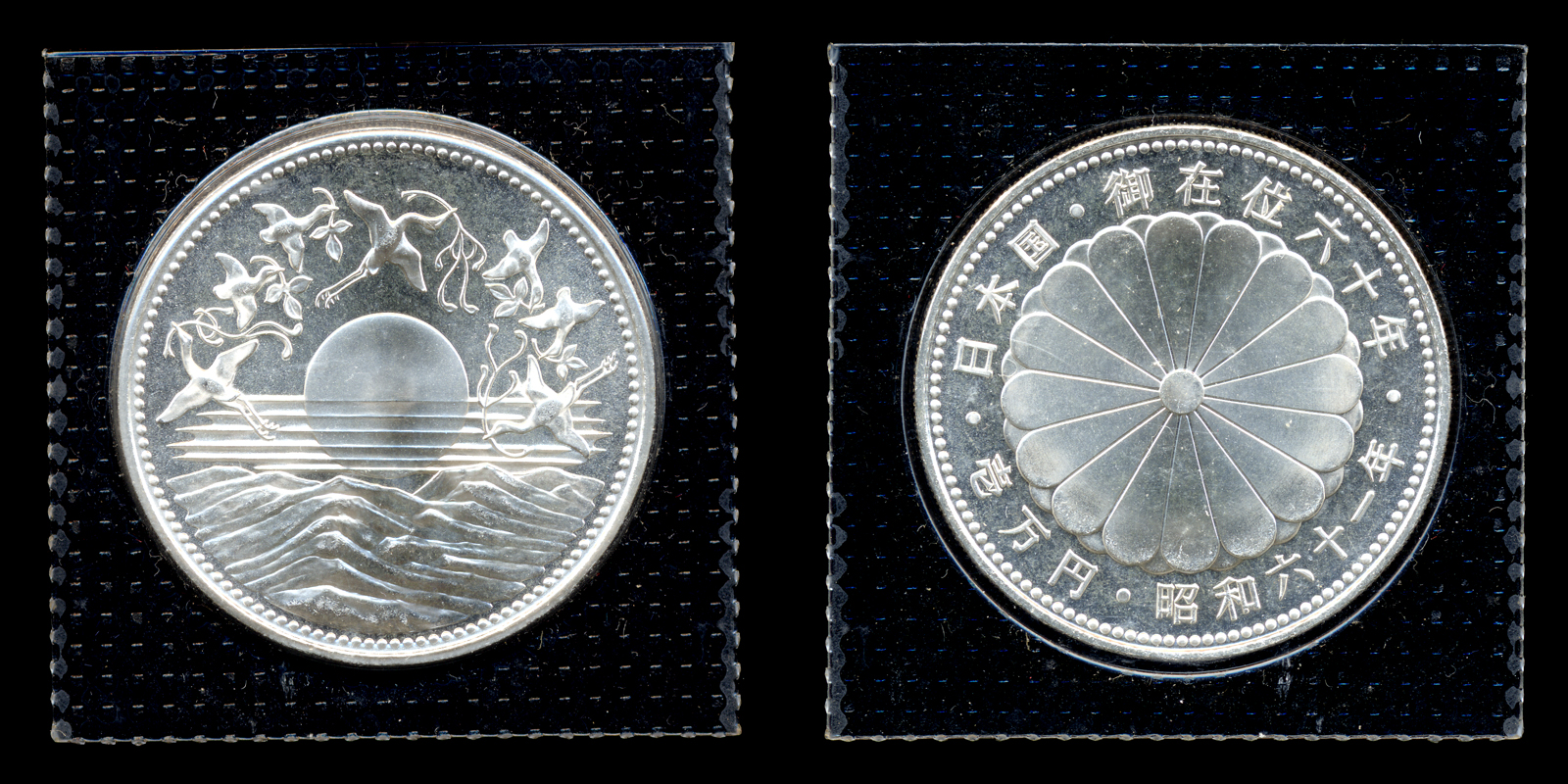 Gozaii60nen-10000yen